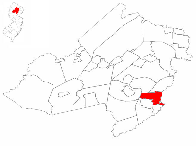 Position of Florham Park (highlighted in red) in Morris County. Morris County's position in New Jersey is in turn highlighted in red.